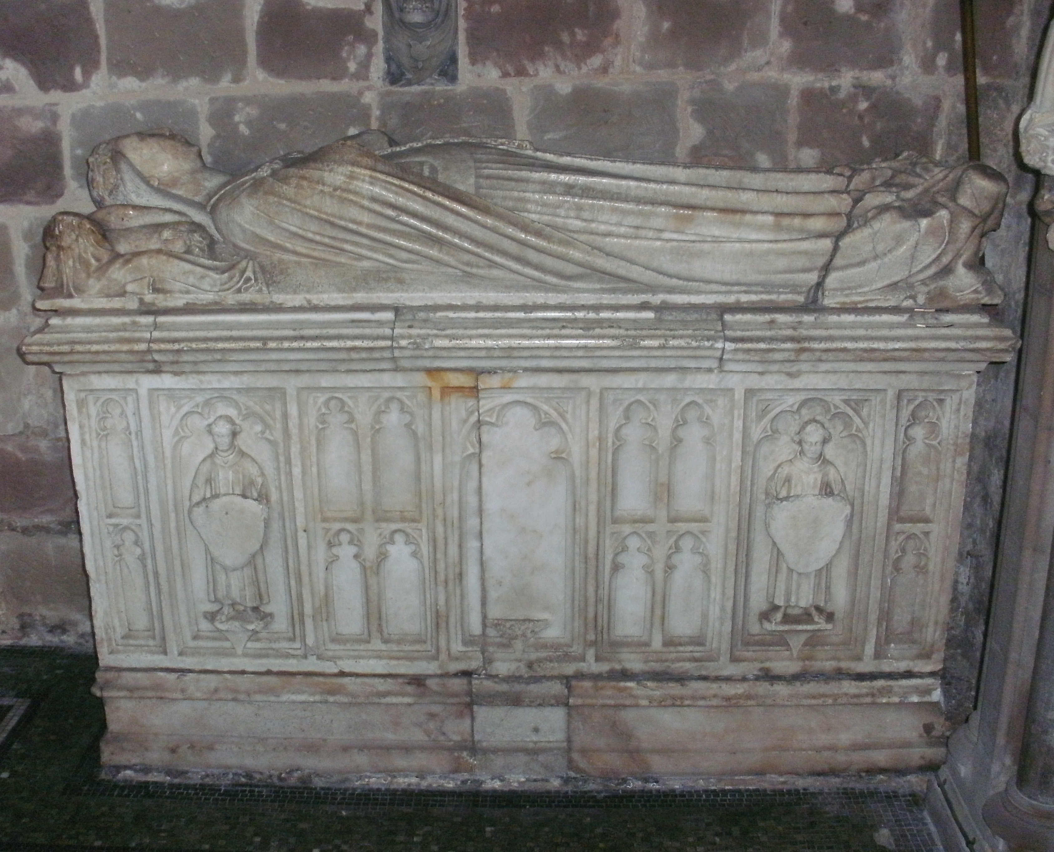 The tomb of Lady Elizabeth Talbot (née Greystoke, died 1490), first wife of Sir Gilbert Talbot of Grafton, KG (died 1517/18) in St John the Baptist Church, Bromsgrove